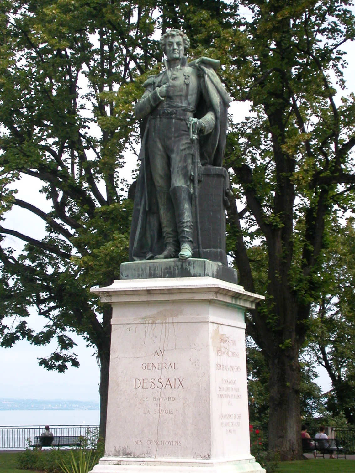 Statue of Joseph Marie, Count Dessaix the port of Thonon-les-Bains